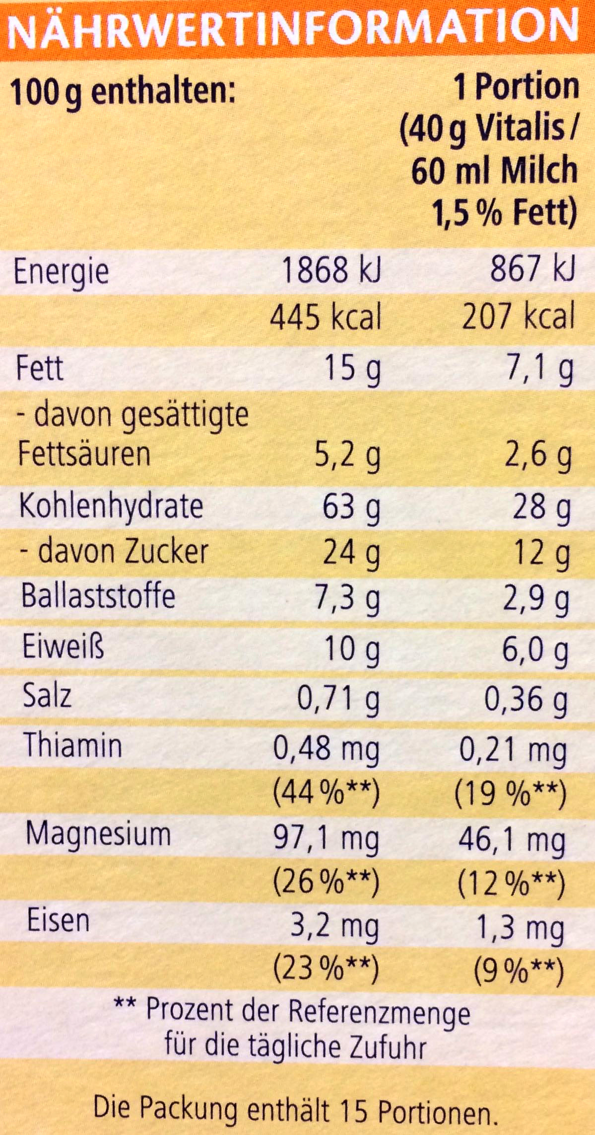 Nutritional information on a cereal box